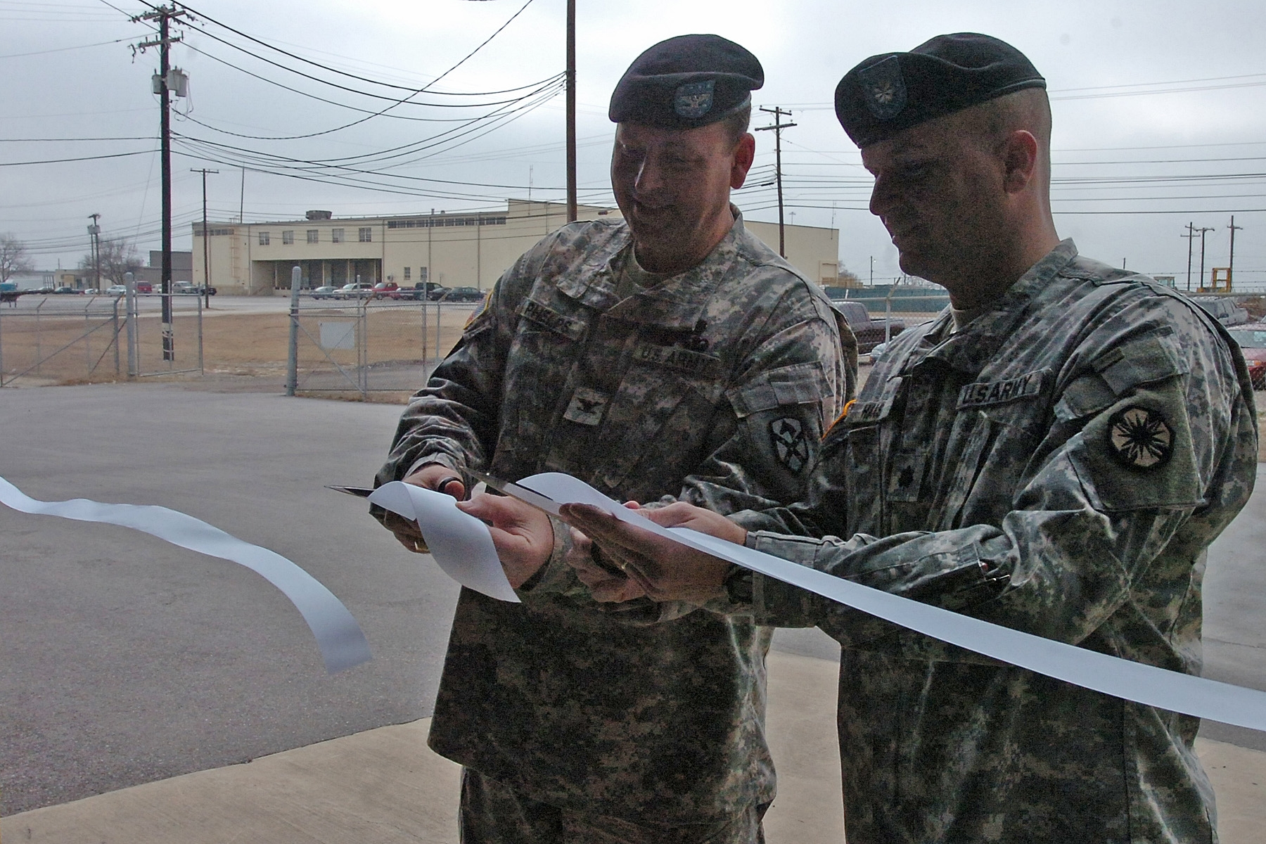 Col. Larry Phelps, the commander of the 13th Sustainment Command (Expeditionary)'s 15th Sustainment Brigade and Lt. Col. Peter Haas, the commander of the brigade's 49th Transportation Battalion, cut the ribbon on Fort Hood's new Class III package warehouse Feb. 22. The new warehouse is a place where units can turn in their excess oils and lubricants and get ones the need easily and with minimal paperwork.